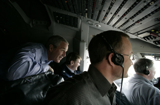 President George W. Bush in the cockpit of Air Force One on the final approach before landing in Baghdad.